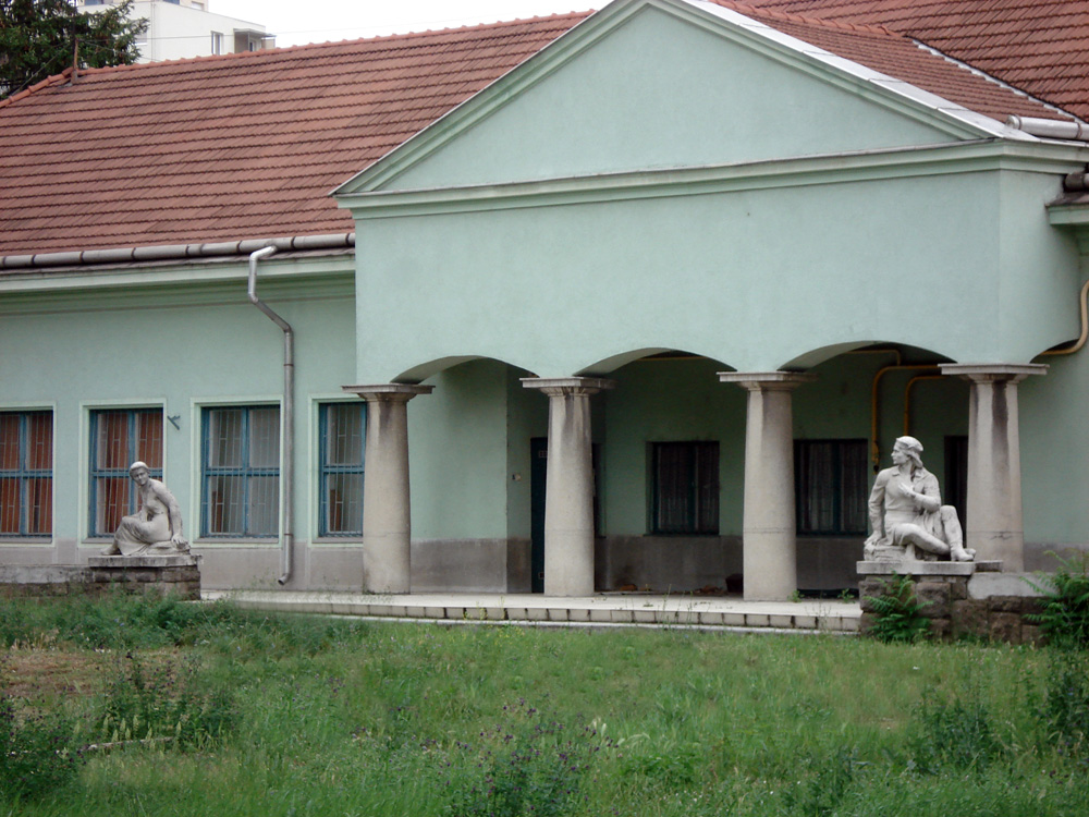 Sculptures on a kindergarten's yard. Right: Miklós Varga: Árgyélus királyfi, left: Márta Lesenyei: Tündérszép Ilona. Miskolc, Hungary